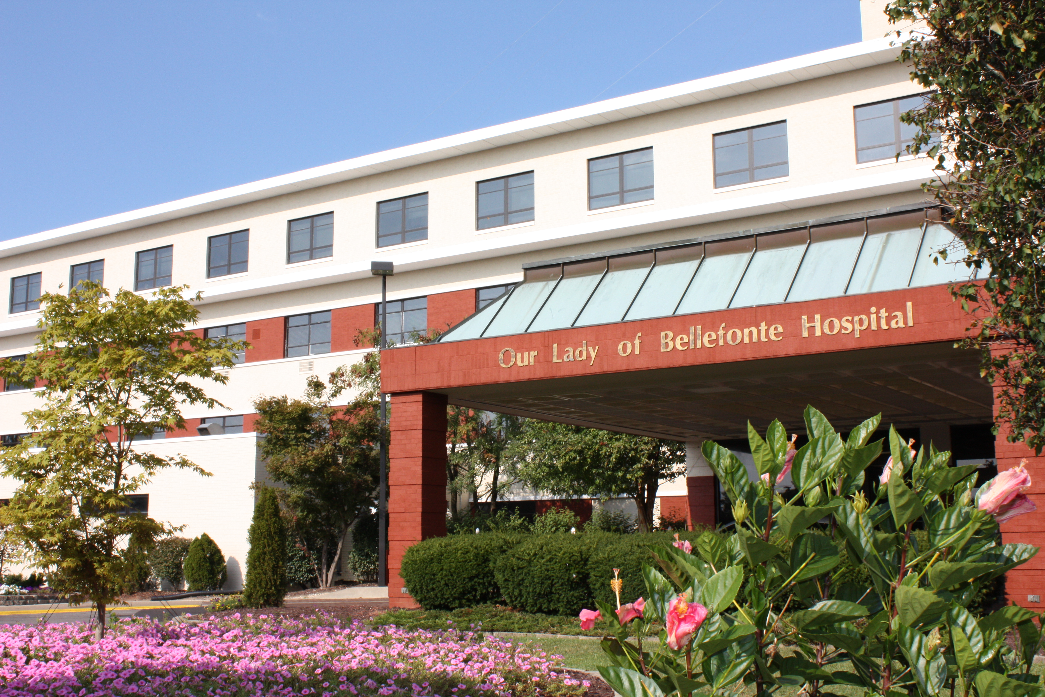 The front entrance to Our Lady of Bellefonte Hospital in Ashland, Ky.